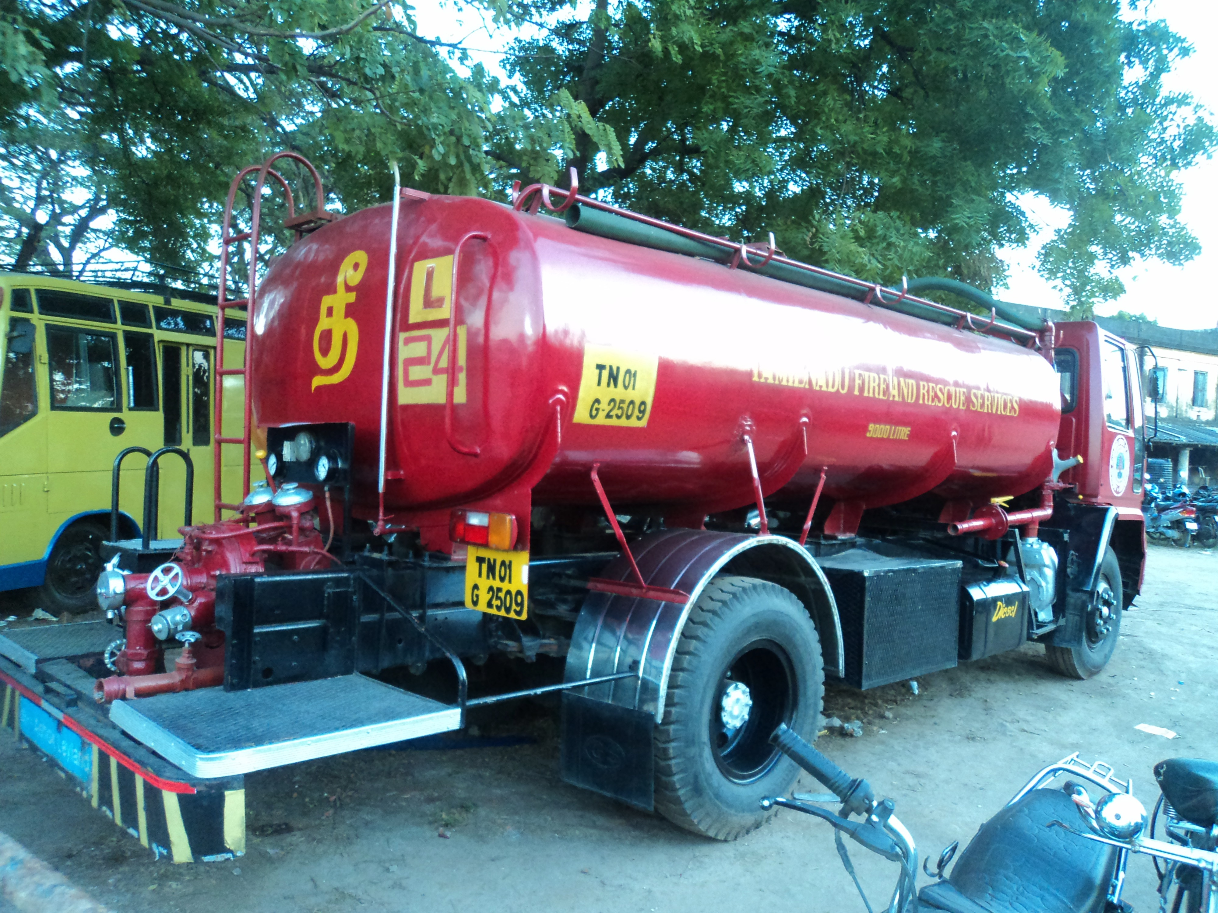 The 35th book fair in Chennai